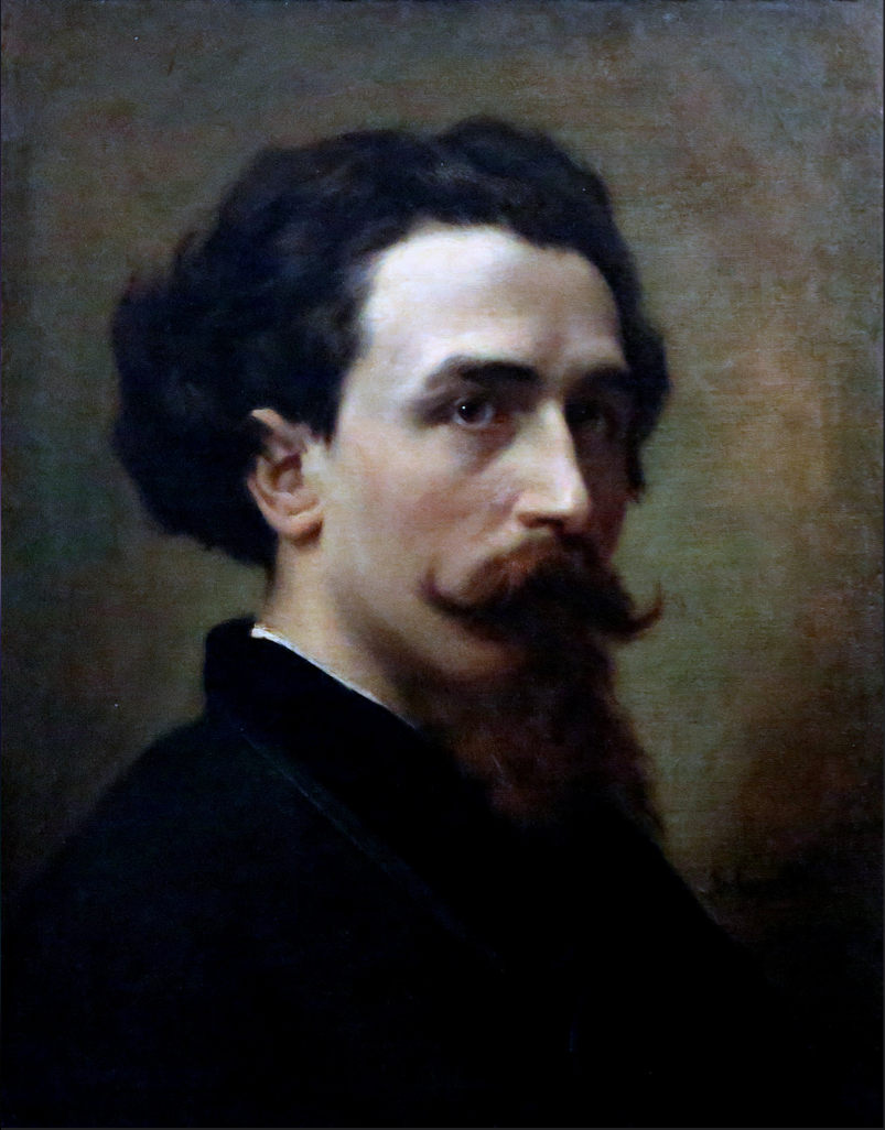 Alleged portrait of the painter Jules Dupré or M. Francis Wey, both closed friends to Courbet